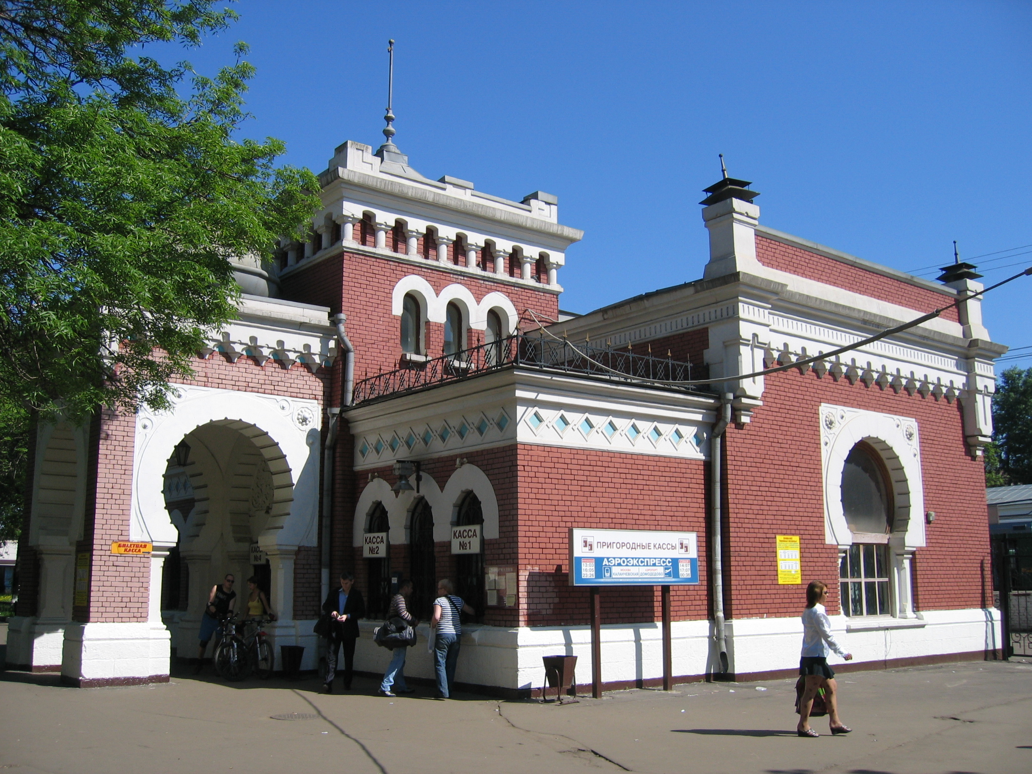 Kalanchevskaya train station in Moscow